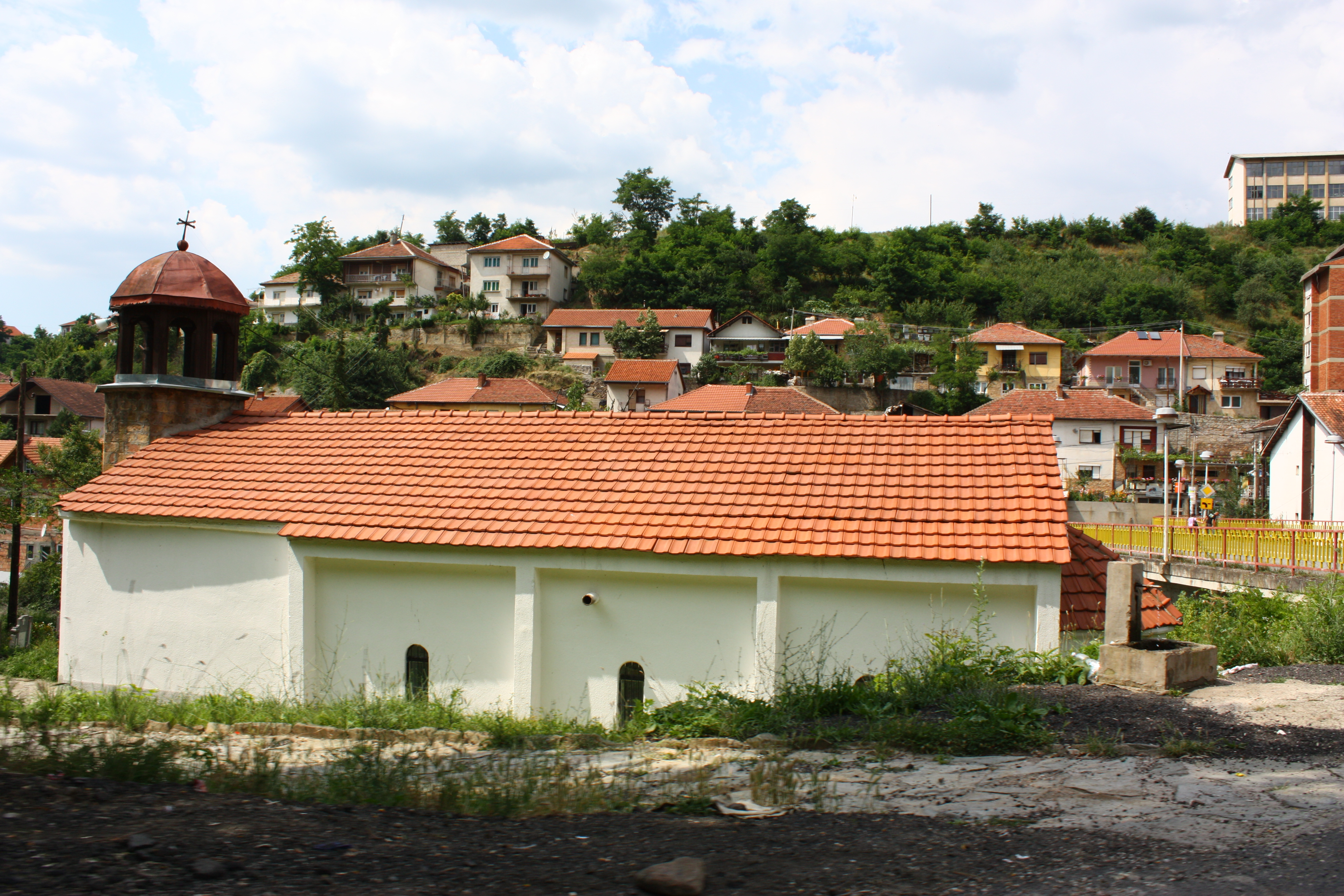 St. George of Kratovo Church in Kratovo, Macedonia